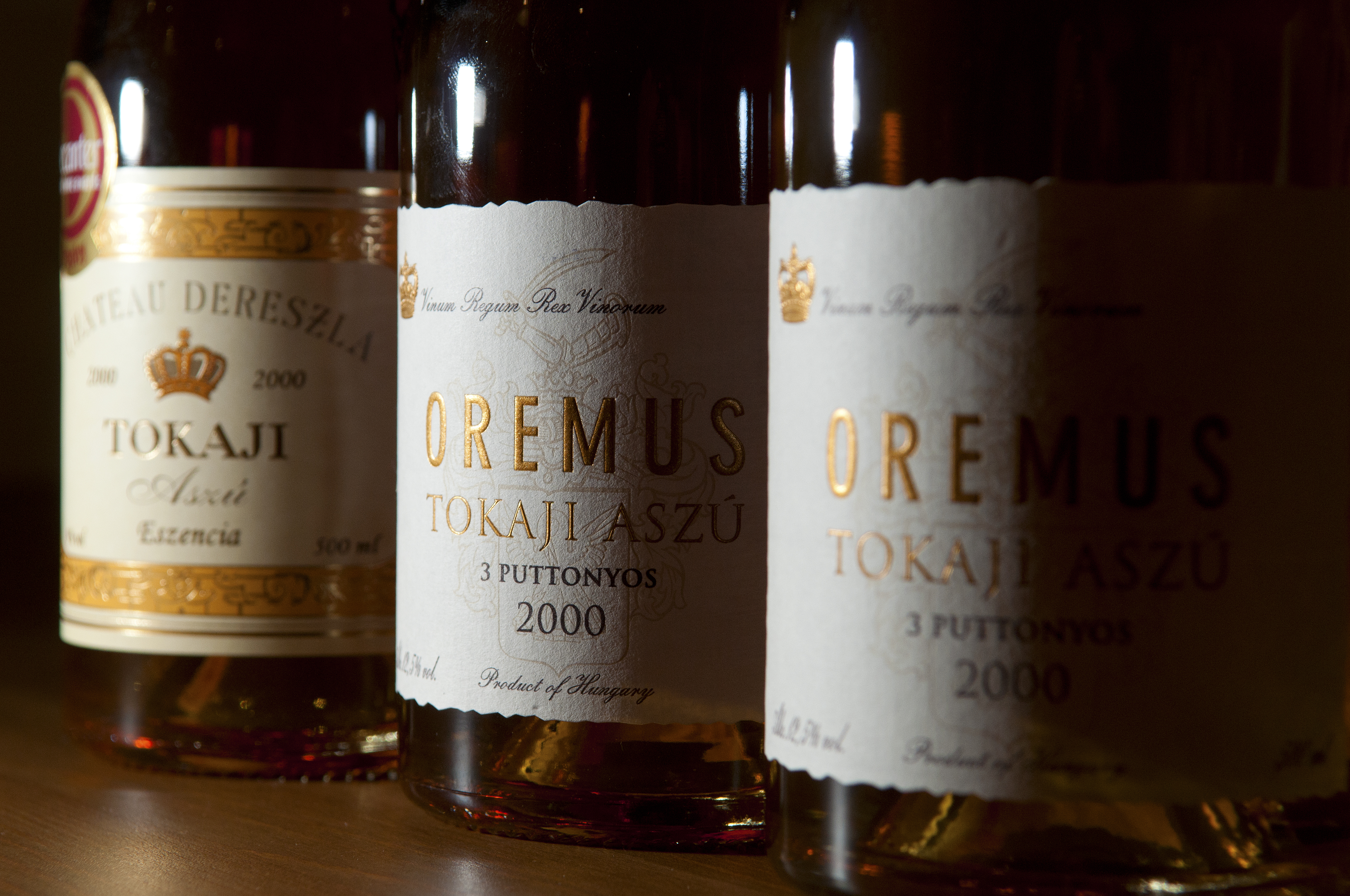 Varietally labelled Tokaji wine made from the Oremus (now known as Zeta) grape which is a cross of Furmint and Bouvier.